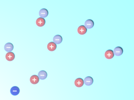 This is a graphical representation of virtual electron-positron pairs randomly popping into existence near a (non-virtual) electron (lower left). The coulomb force from the (non-virtual) electron briefly separates the pairs before they snap back together and vanish. This separation partially shields the (non-virtual) electron's charge from the outside.